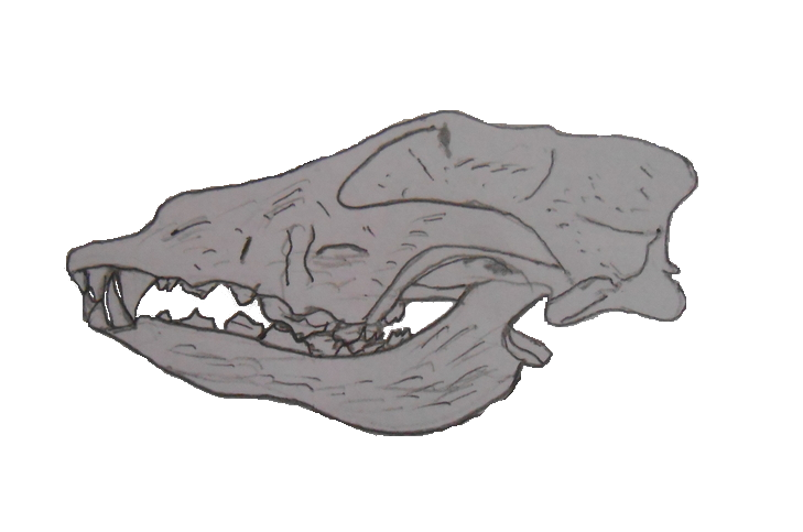 A full restoration of the 36,000 years Before Present Goyet Cave canid skull, based on